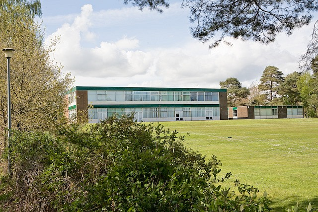 North Baddesley Junior School, Fleming Avenue Rear view, seen from Norton Welch Close.